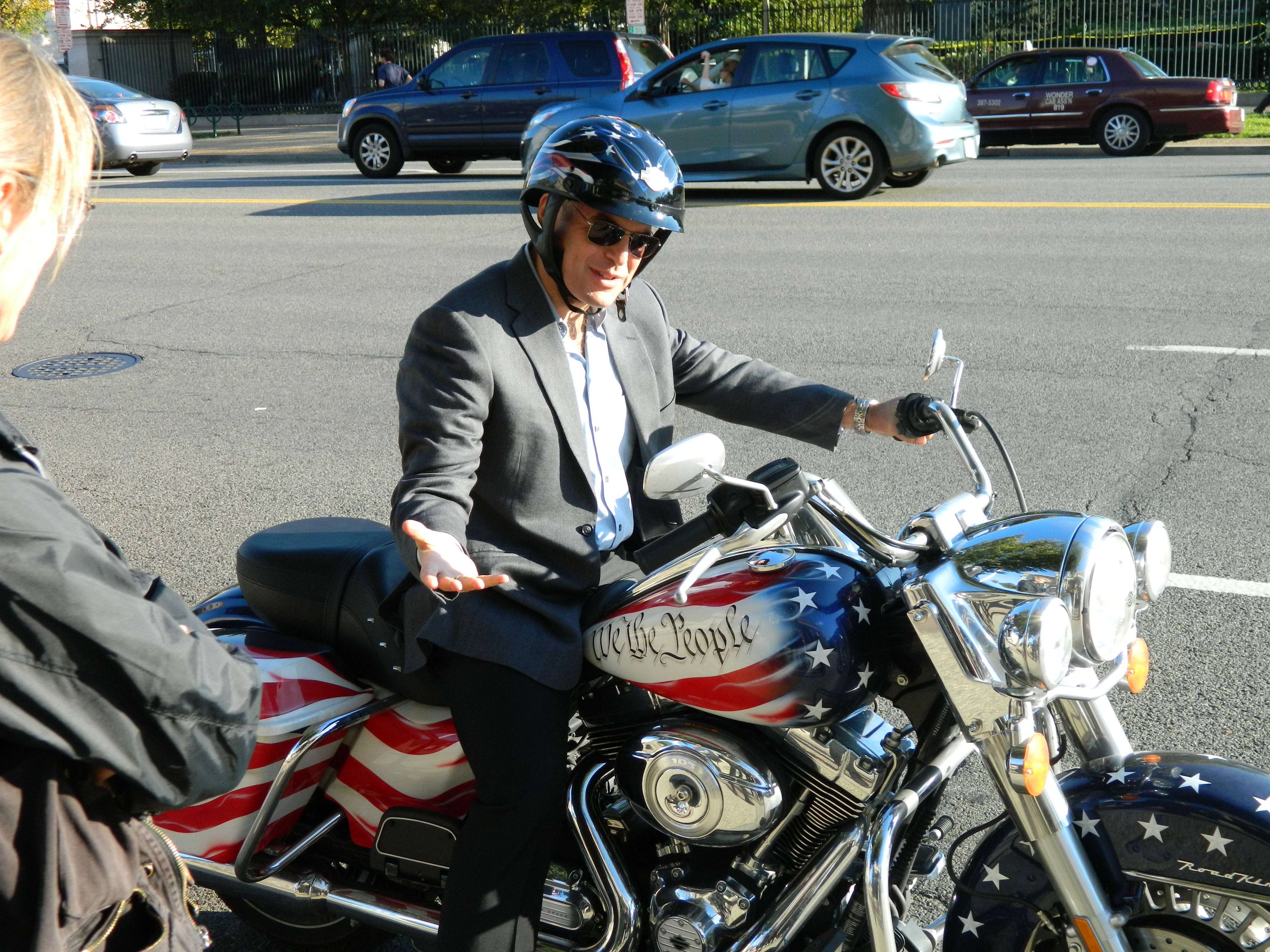 Peter Sagal has a motorcycle with “We the People” painted on it. Everyone at the National Archives is jealous. Scooter onderdelen Why did we have two sightings of Peter Sagal yesterday? The host of the radio program “Wait, Wait, Don’t Tell Me” was stopping by the home of the Constitution to film some segments for his upcoming program “CONSTITUTION USA with Peter Sagal.” After shooting in front of the Constitution in the dim light of the Rotunda, he came back in the afternoon so his film crew could shoot some sunny footage of him on this Constitution-themed hog outside the National Archives.